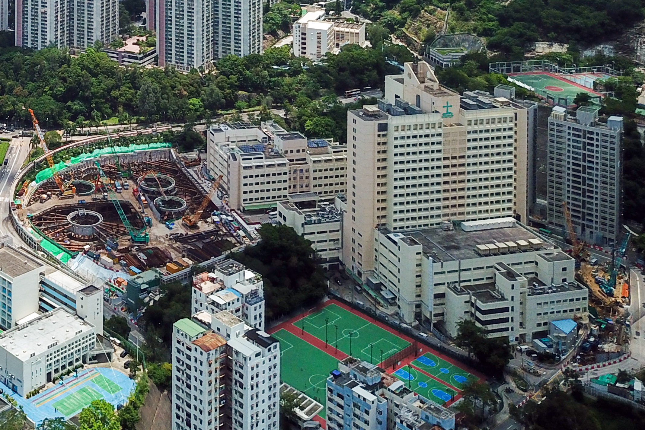 United Christian Hospital